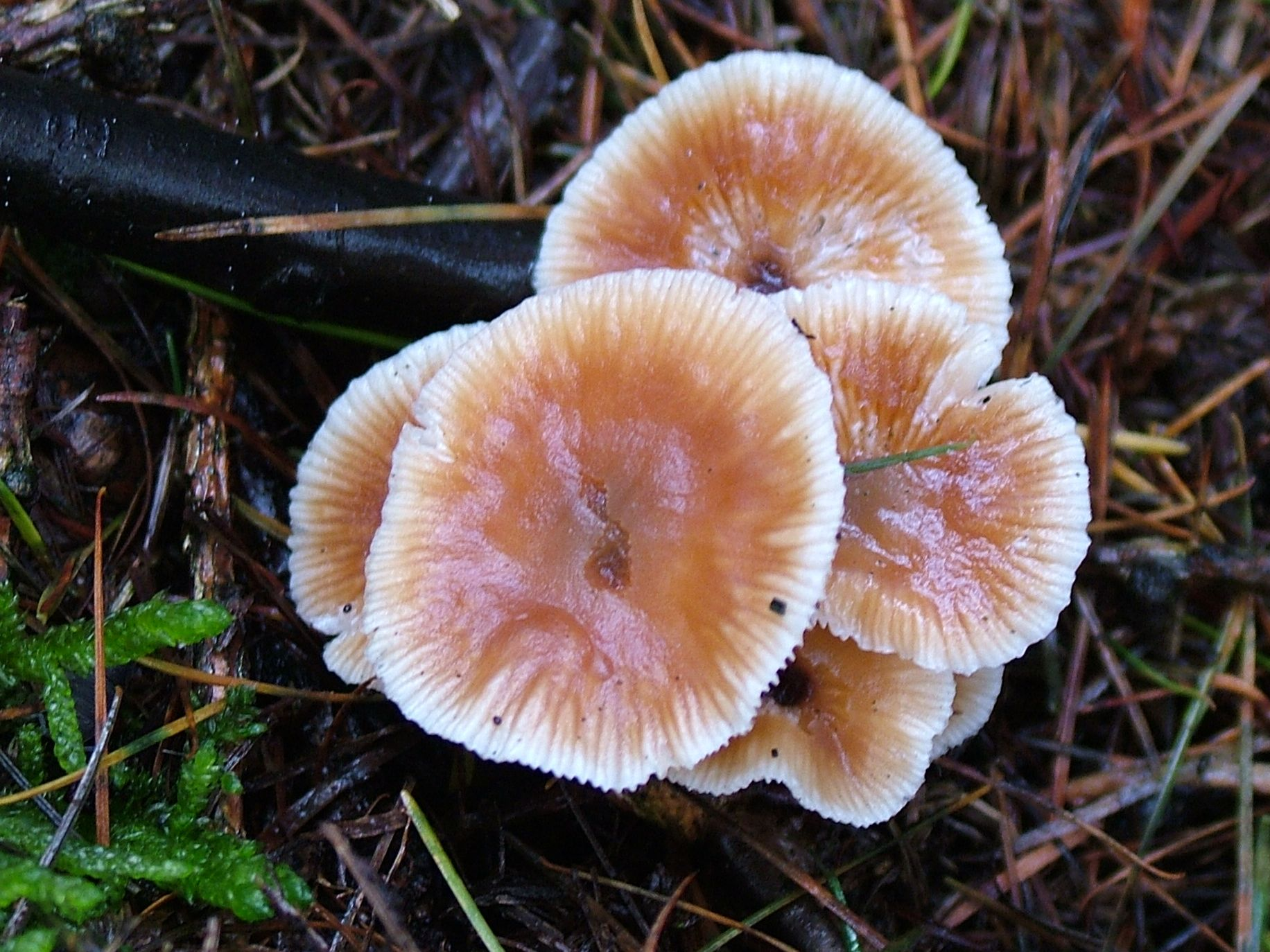 Picture of a Micromphale brassicolens specimen